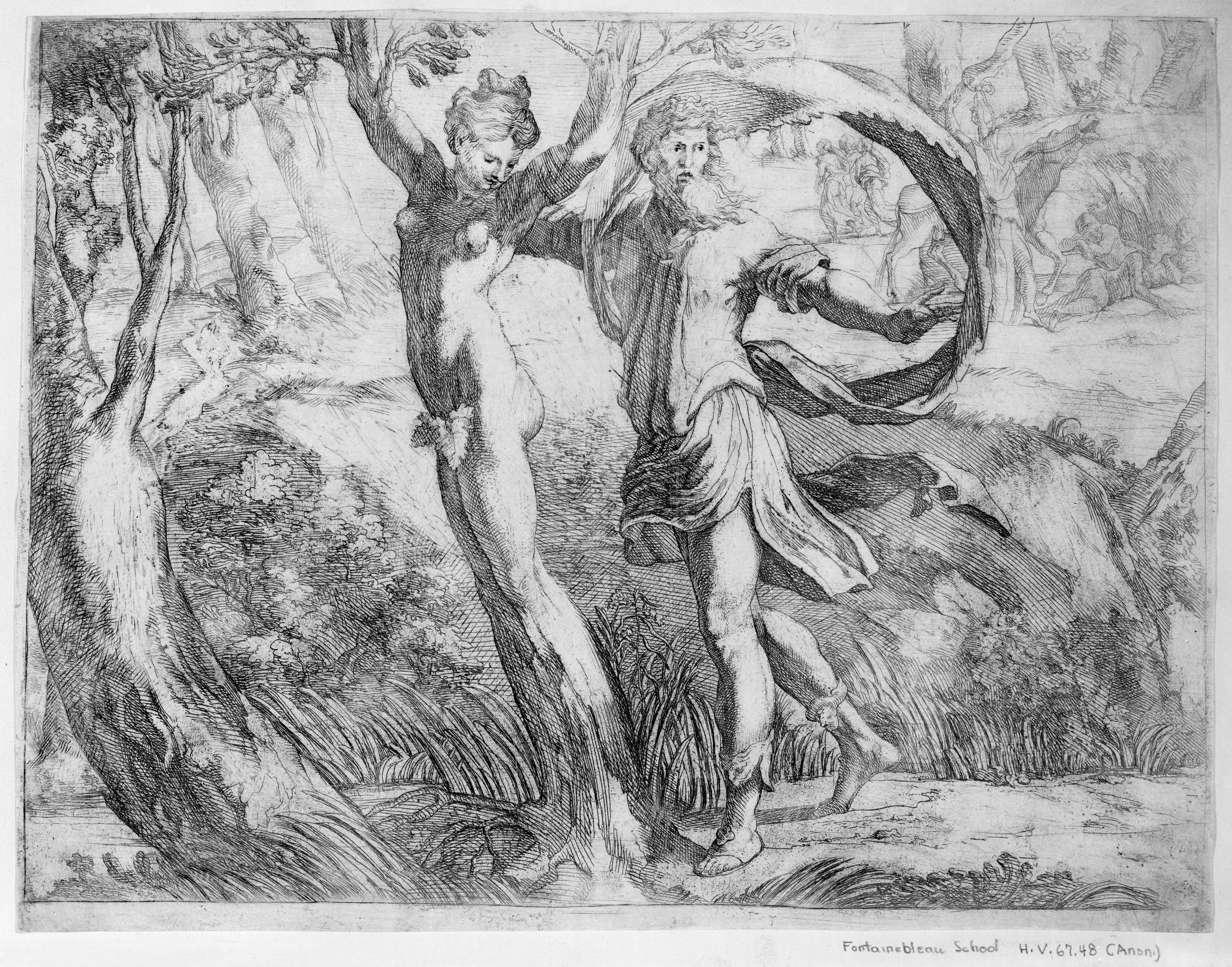 Print; Prints